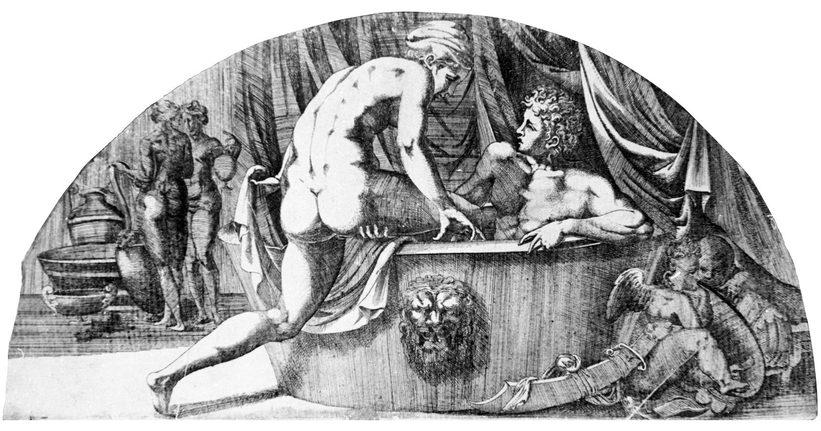 Mars and Venus Bathing, etching by Antonio Fantuzzi, British Museum via Warburg Institute